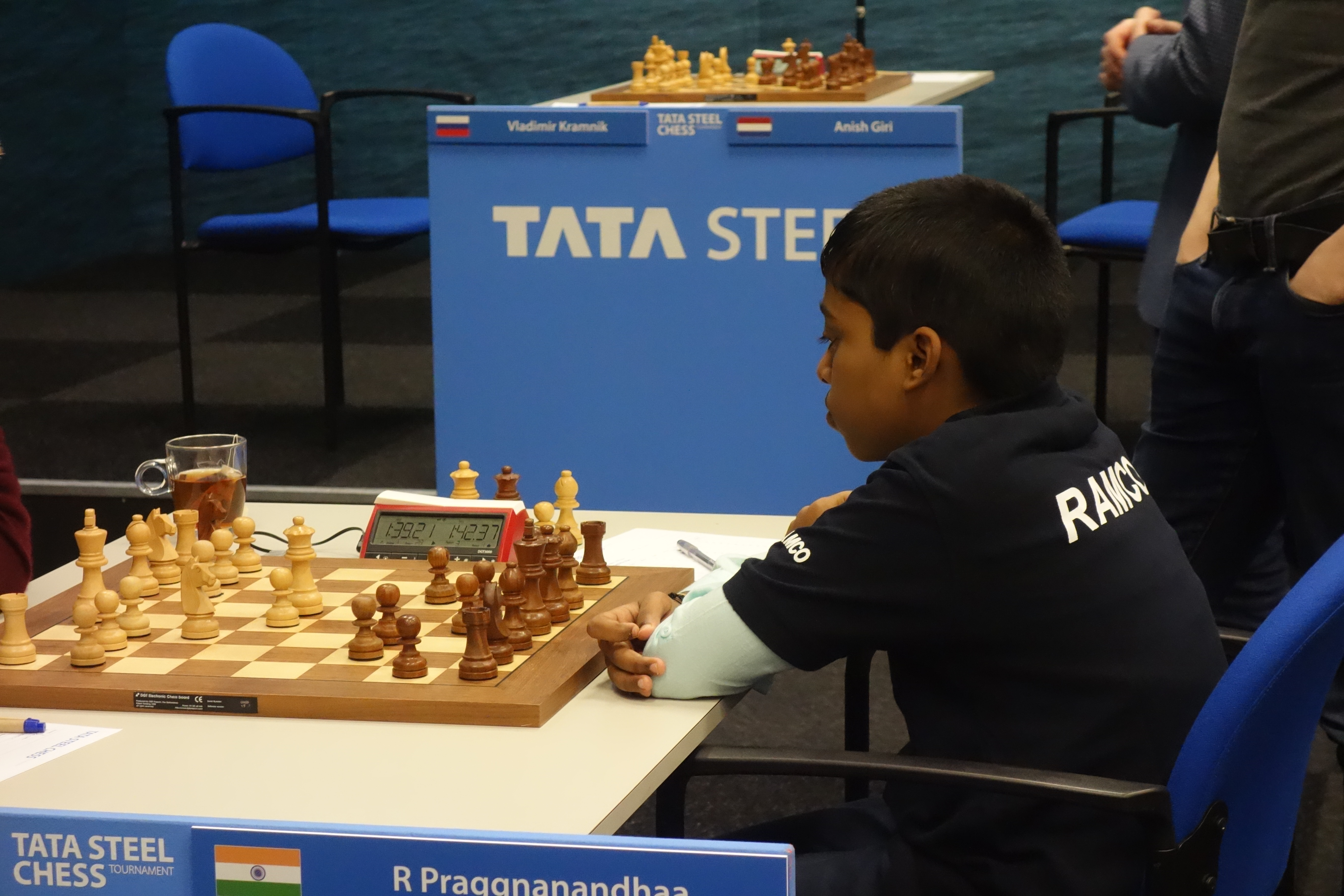 Tata Steel Chess Tournament 2019, Wijk aan Zee (the Netherlands), 13 Jan. 2019